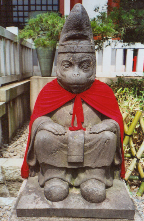 Simian statue at a Tokyo shrine. Photo taken in Tokyo, Japan 2006 by myself (Bantosh).